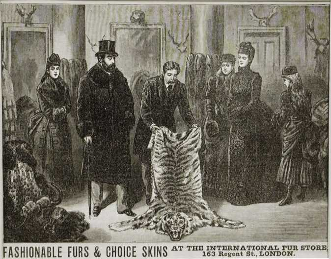 Fashionable furs and choice skins. The International Fur Store, London 163 Regent St. (1886)